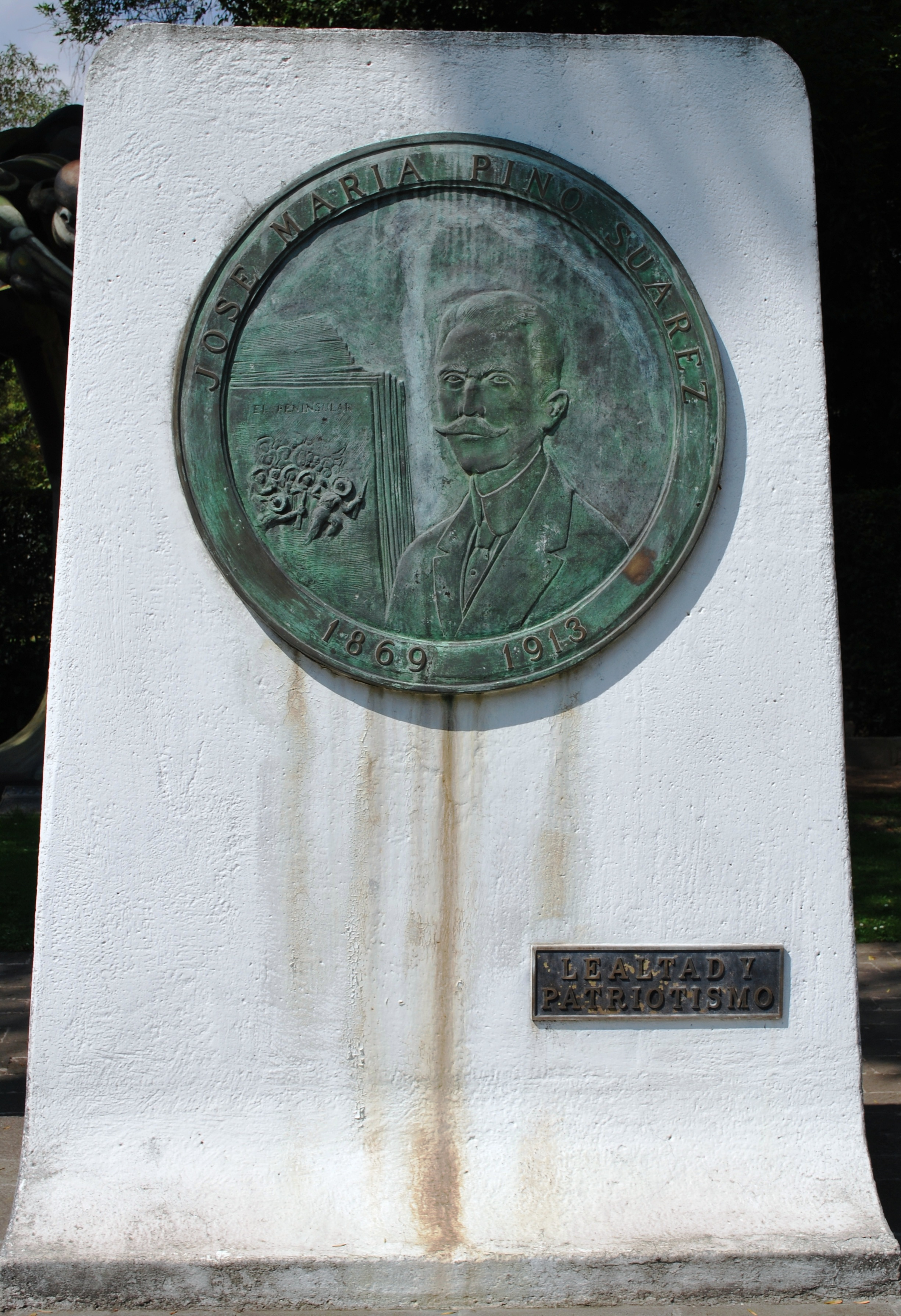 Tomb of Jose Maria Pino Suarez in the Panteon Civil de Dolores cemetery in Mexico City